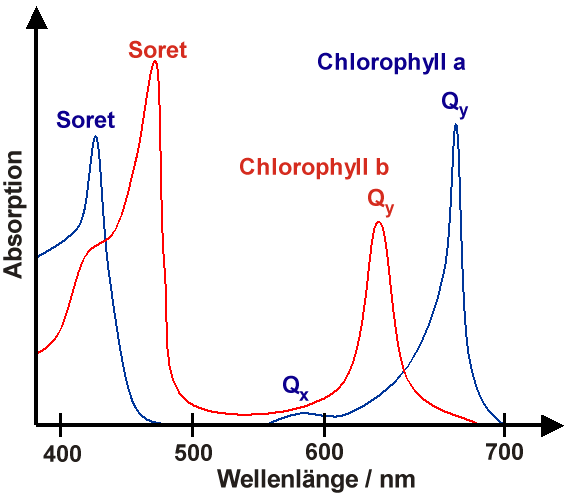 Spectrum of Chlorophyll